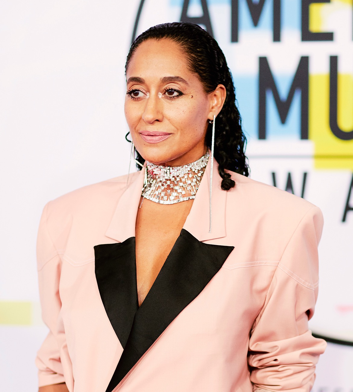 Tracee Ellis Ross, on October 9, 2018 at The 26th Annual American Music Awards at the Microsoft Theater, DTLA